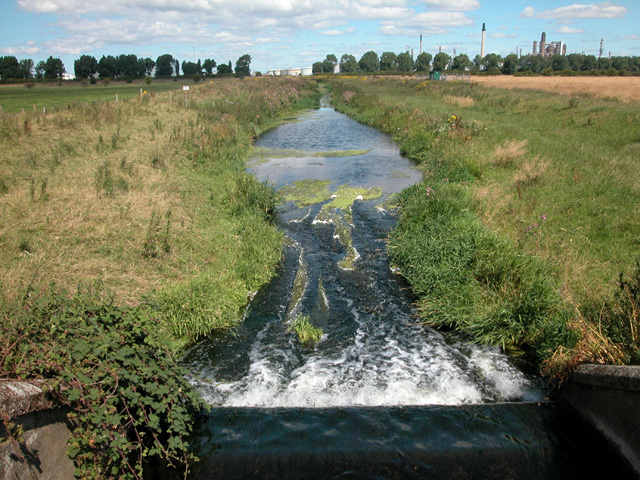 Weir on River Gowy